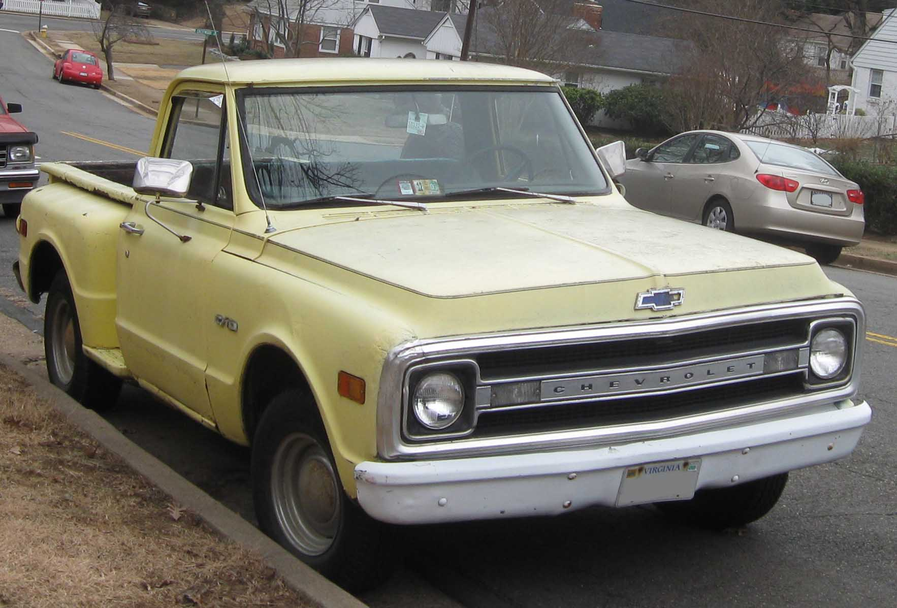 1969-1970 Chevrolet C/10 photographed in Alexandria, Virginia, USA.